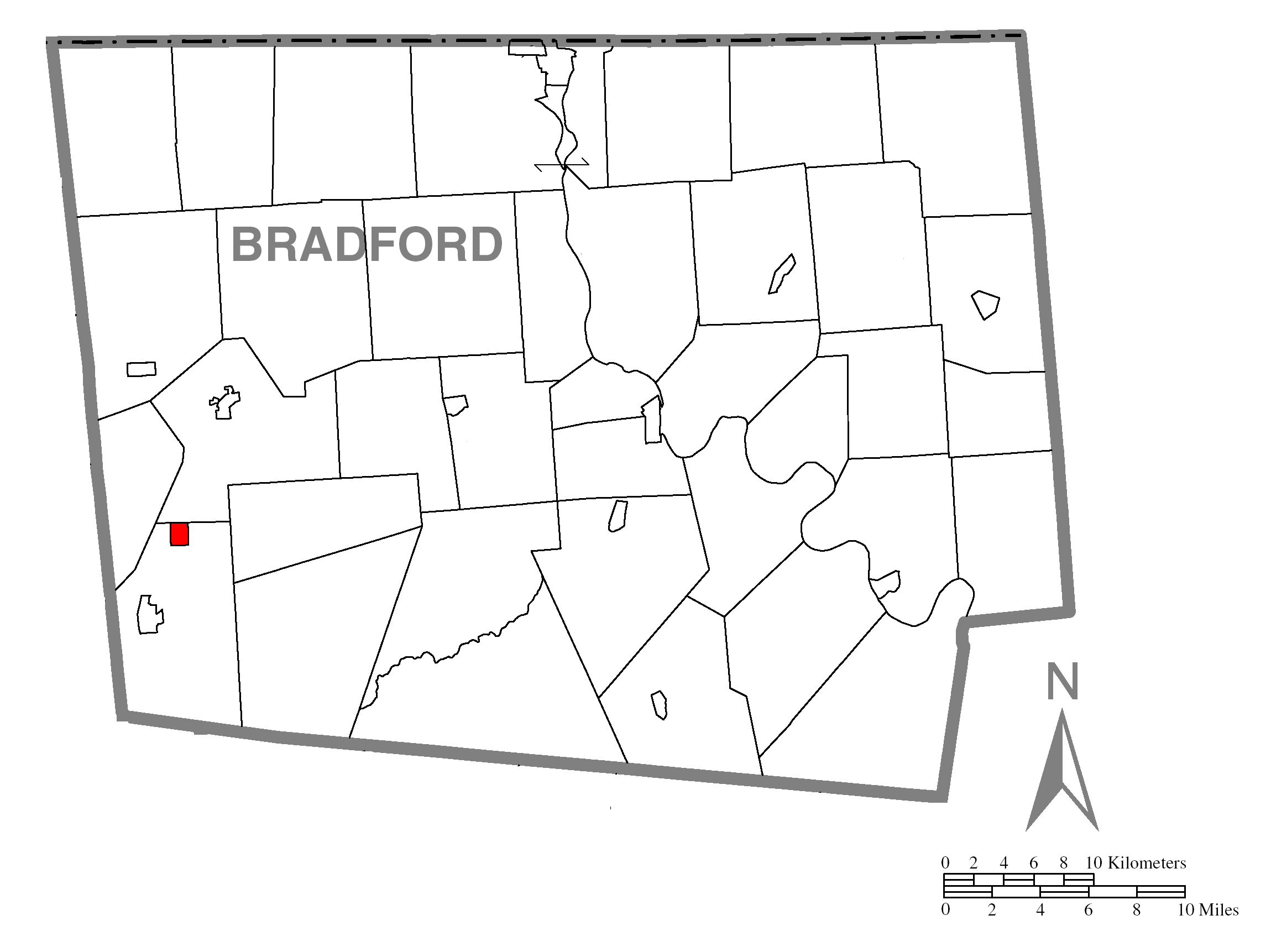 A map of Bradford County showing Alba, Pennsylvania (alternate) highlighted on the map.